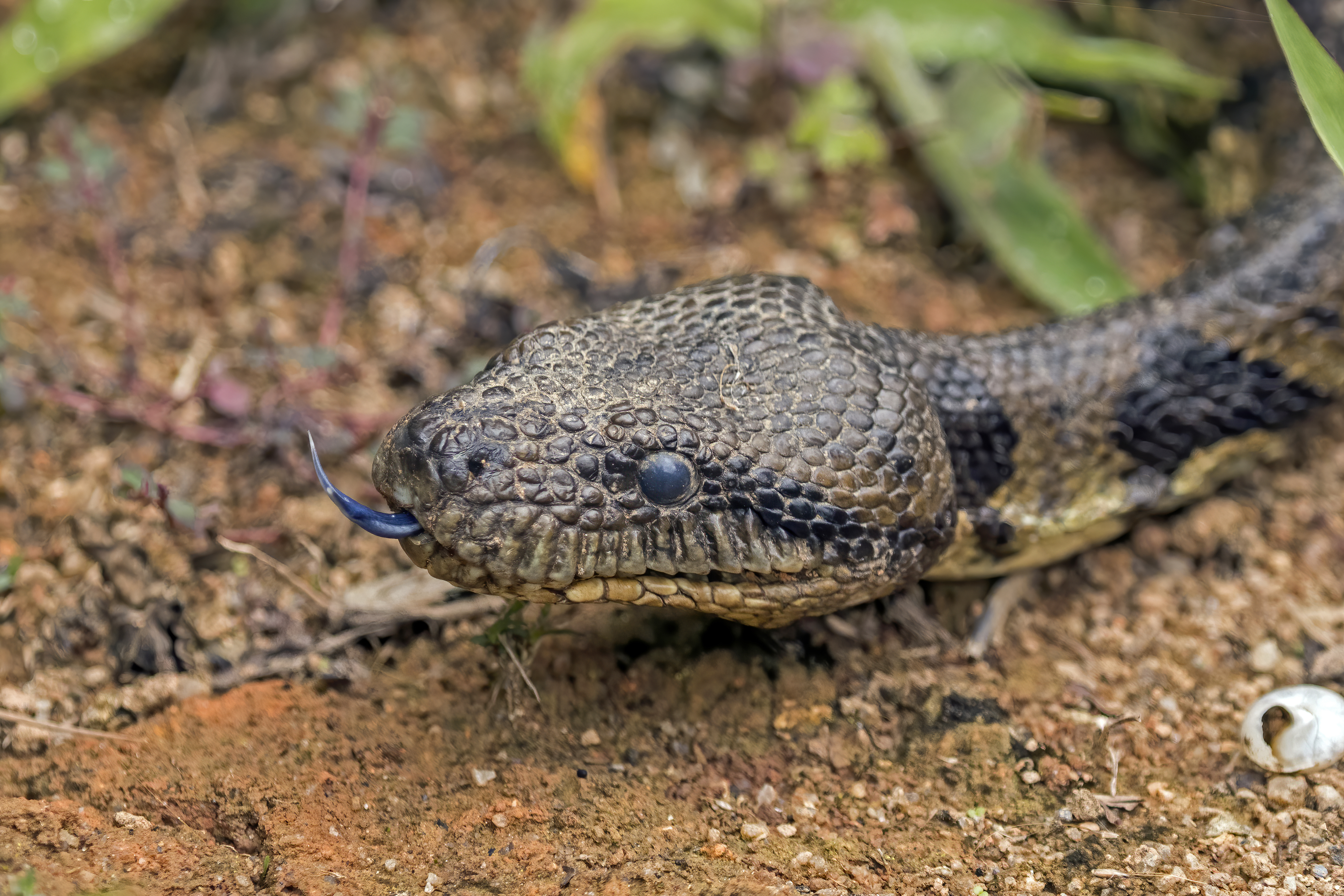 Madagascar tree boa (Sanzinia madagascariensis), Peyrieras Nature Reserve, Madagascar